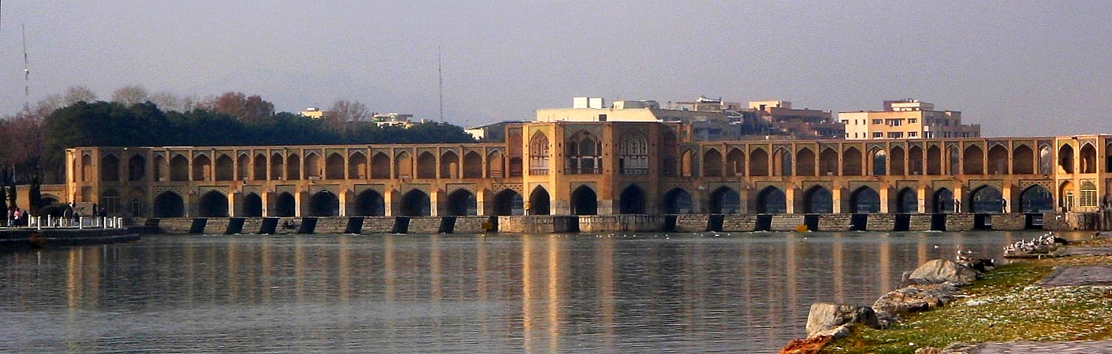 I edited the source image. Edit=cropping, some contrast, saturation, gamma, rotate and sharpen.